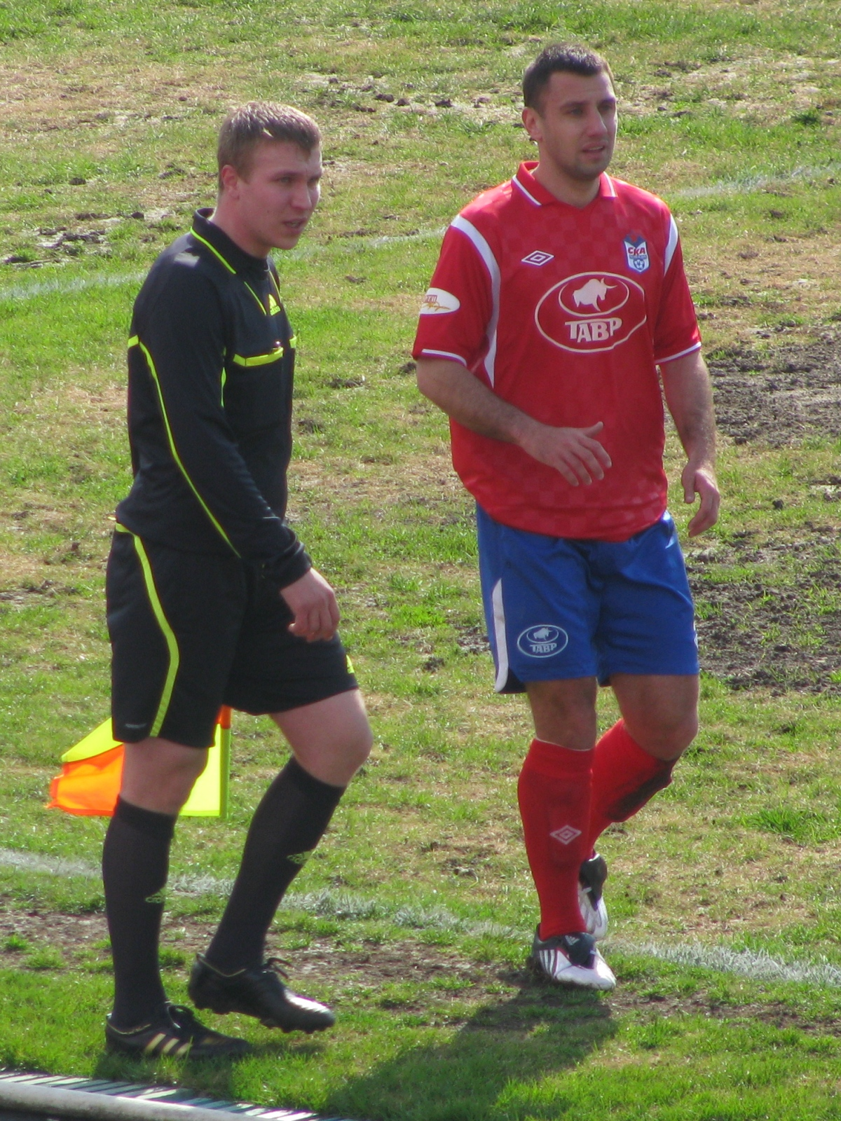 Football player Anton Sakharov